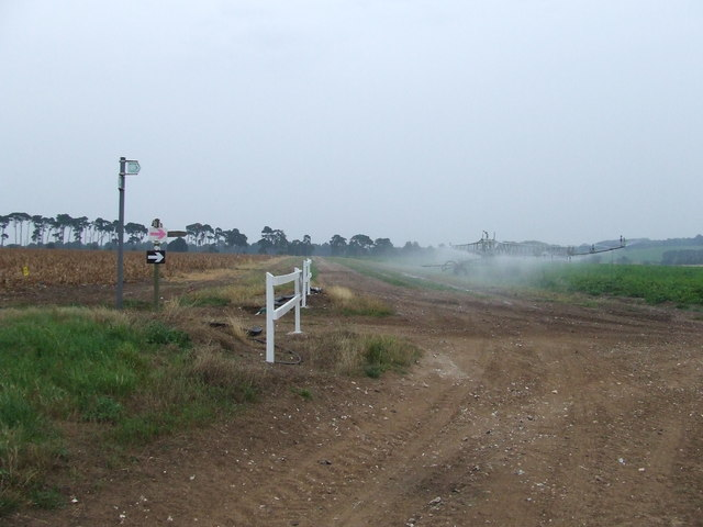 It's raining Irrigating the field and the byway near to Culfordheath Suffolk.